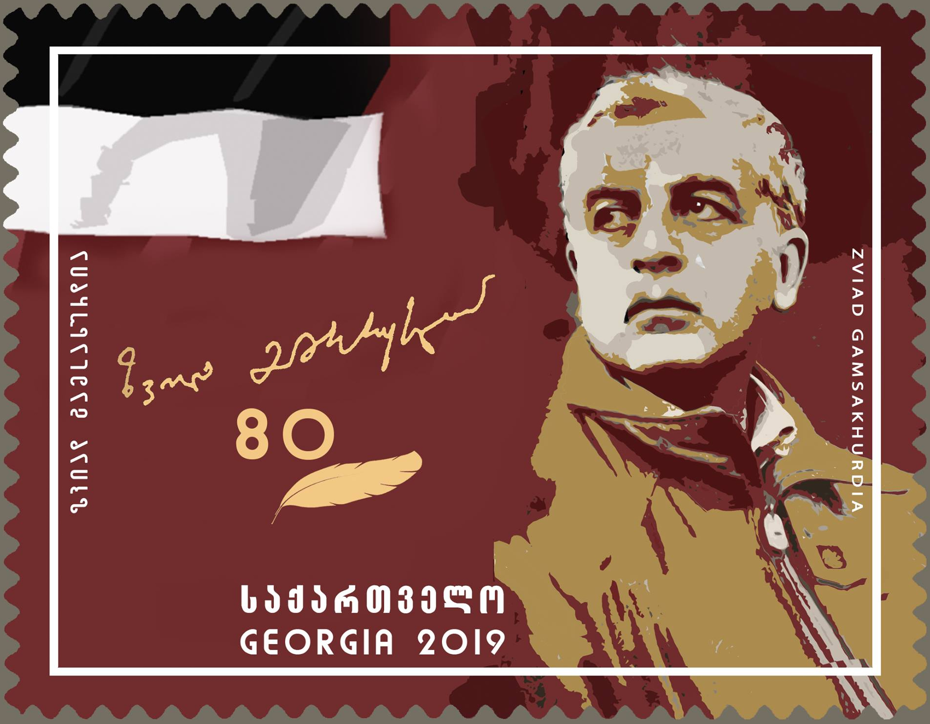 80th Anniversary of Birth of Zviad Gamsakhurdia, President